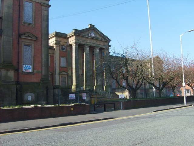 The Royal Hospital Once the main hospital in Wolverhampton ,now lies unused its services moved to New Cross Wednesfield.